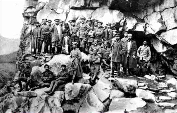 King Habibullah Khan standing with Afghan military men.